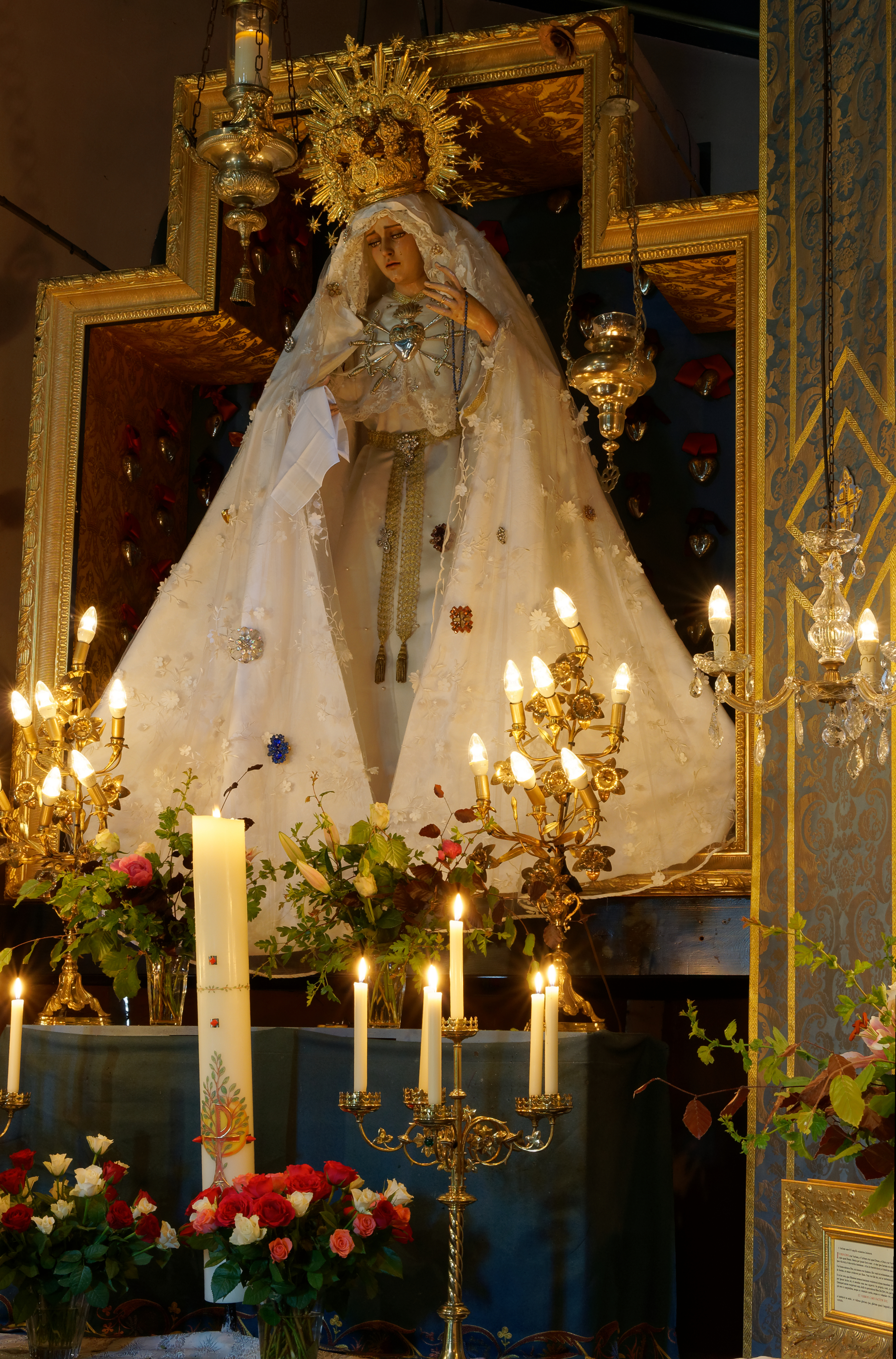 The miraculous statue of Our Lady in the church of the hermitage of Warfhuizen, the Netherlands.